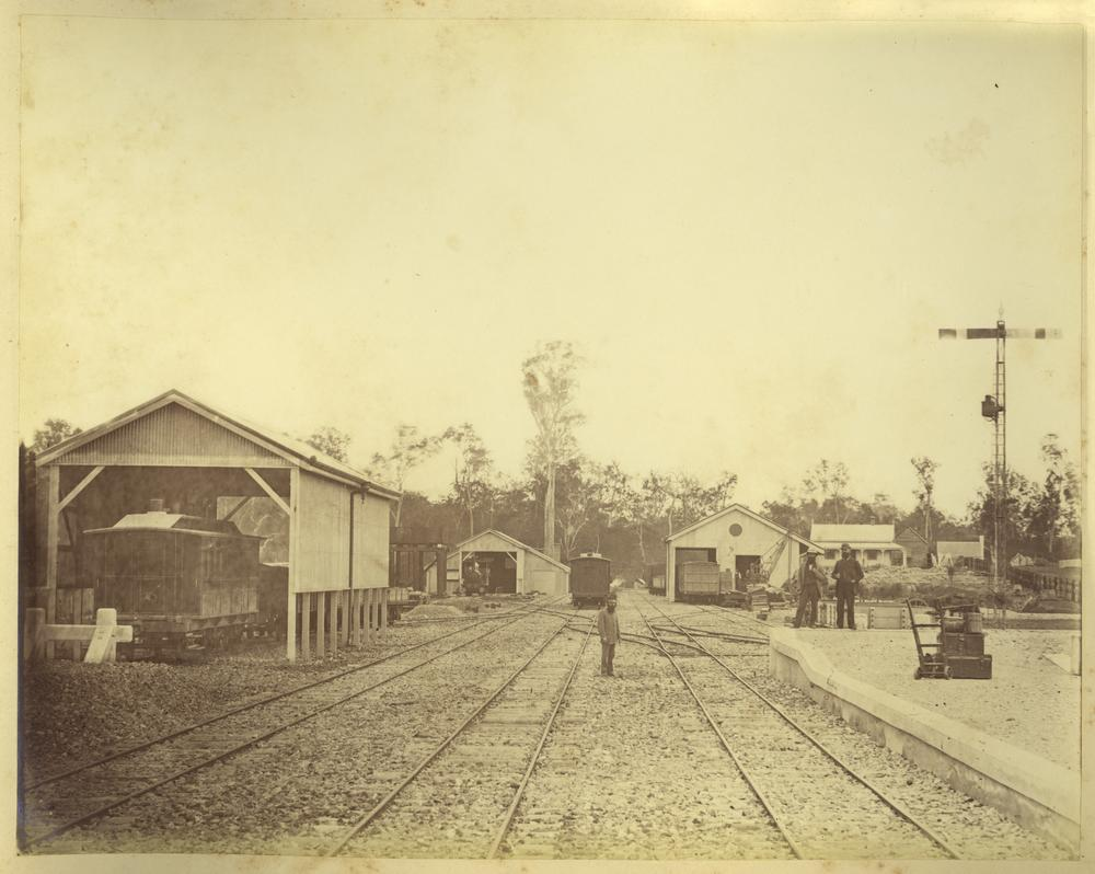 View of the Gympie Railway Yard, 1882. Railway workers standing on the platform in view of the railway sheds. The photograph shows newly constructed sheds and various wagons and rolling stock.